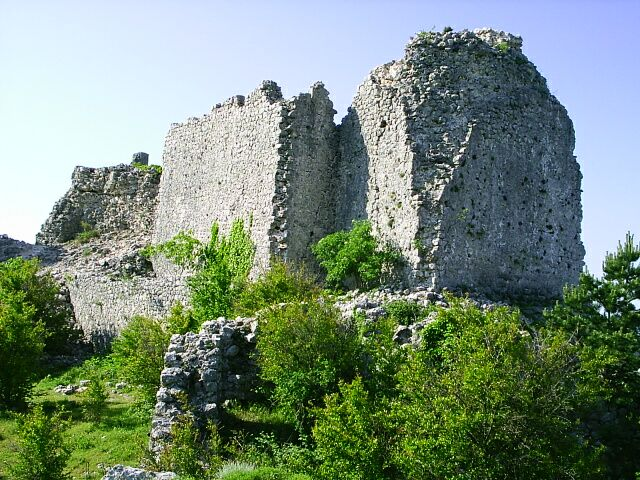 Ljubuški Castle, Bosnia and Herzegovina